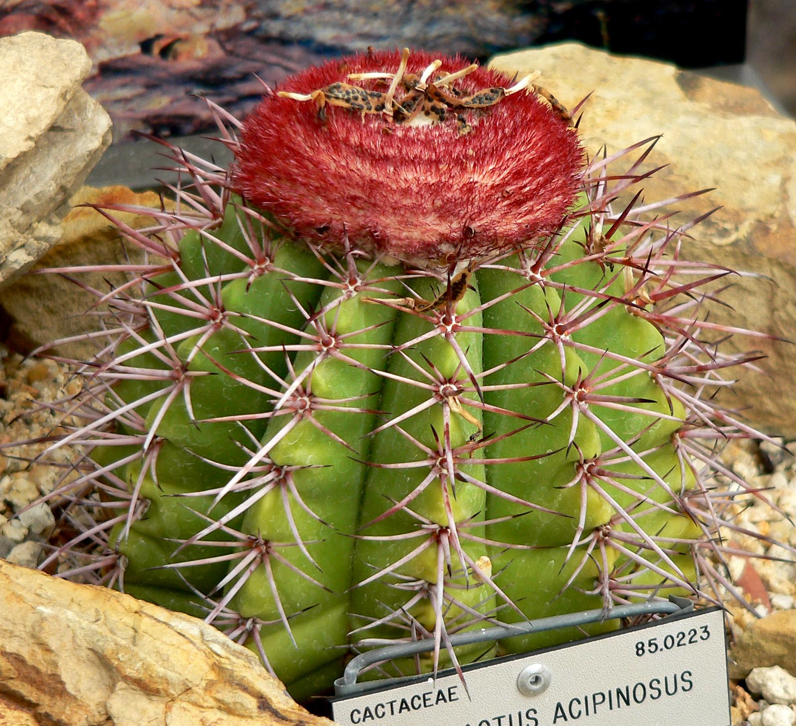 Photo of Melocactus acipinosus at the University of California Botanical Garden